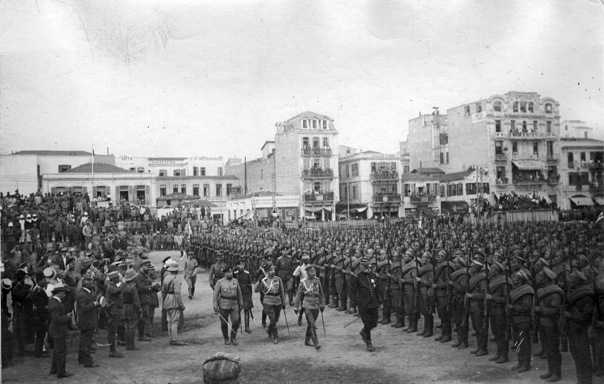 French army in Thessaloniki, World War I This media file is produced by Wikipedian in Residence in Category:Wikipedian in Residence at DARM in 2016.